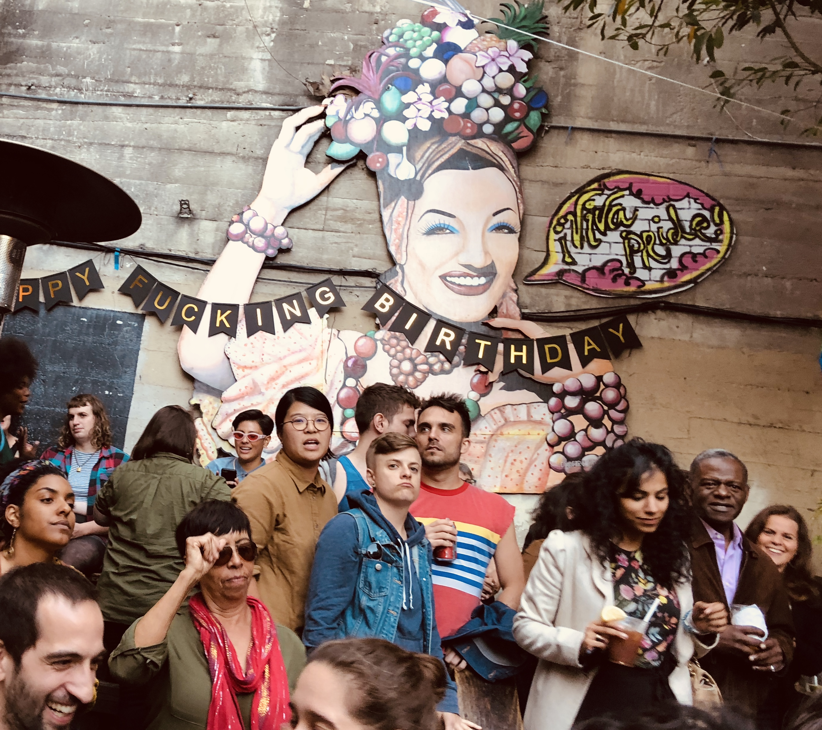 A photograph of the San Francisco gay bar El Rio, from their 2018 40th Anniversary Party